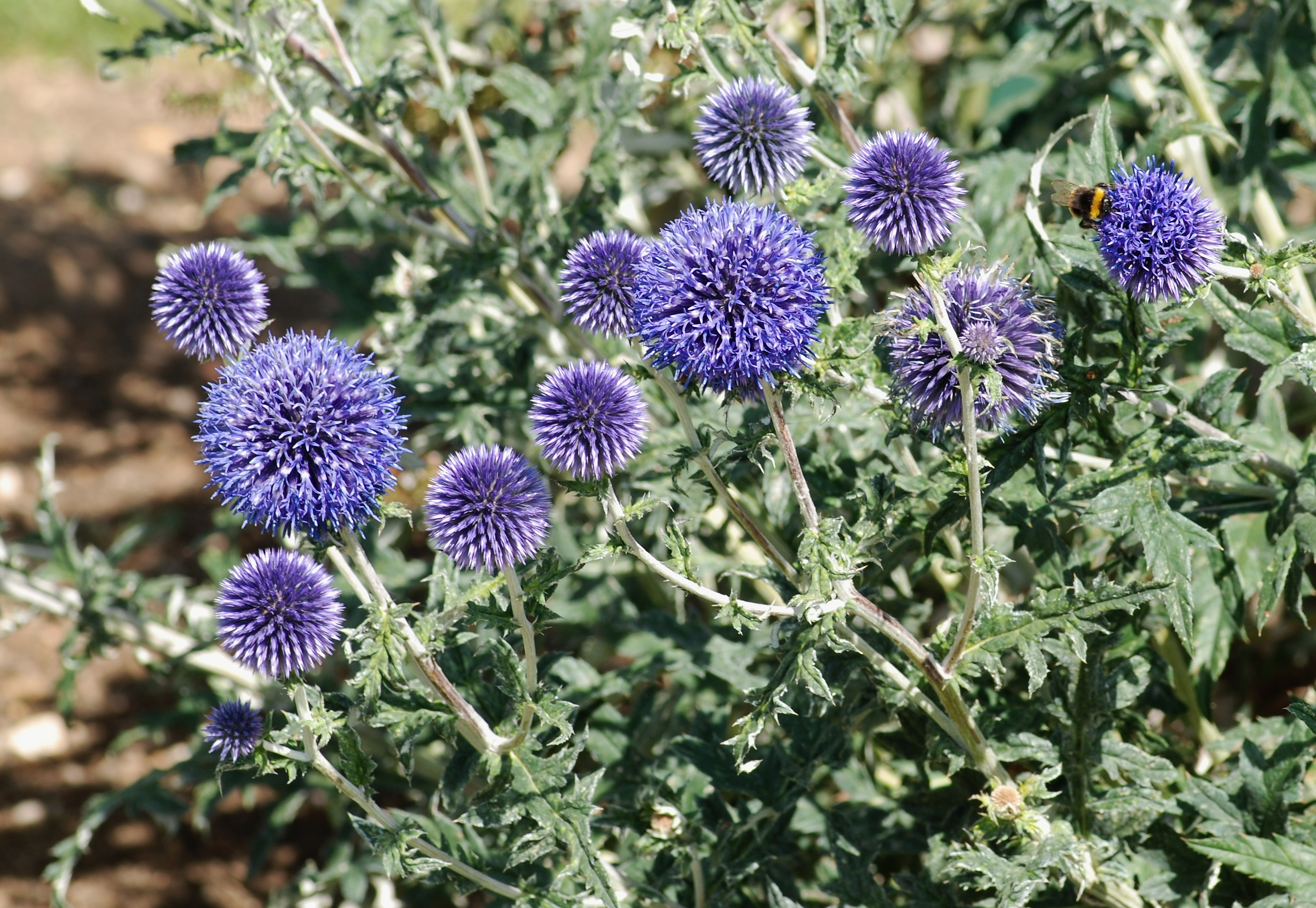 Echinops ritro, Jardin des plantes, Paris.